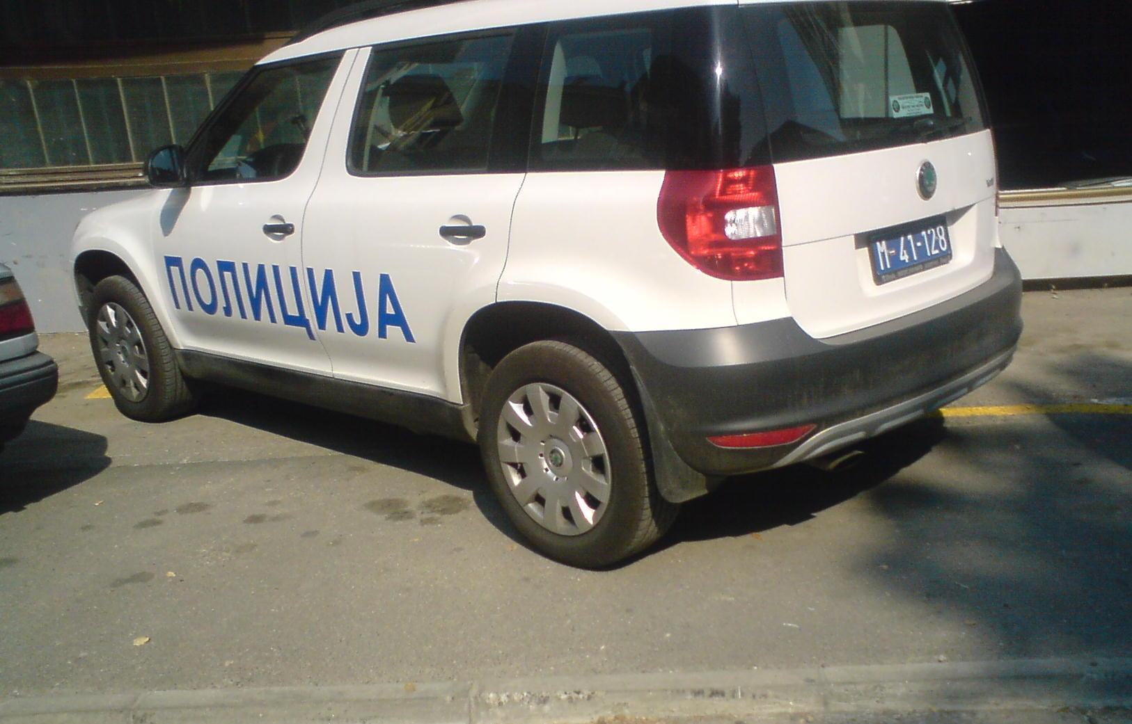 Škoda Yeti of Serbian Police